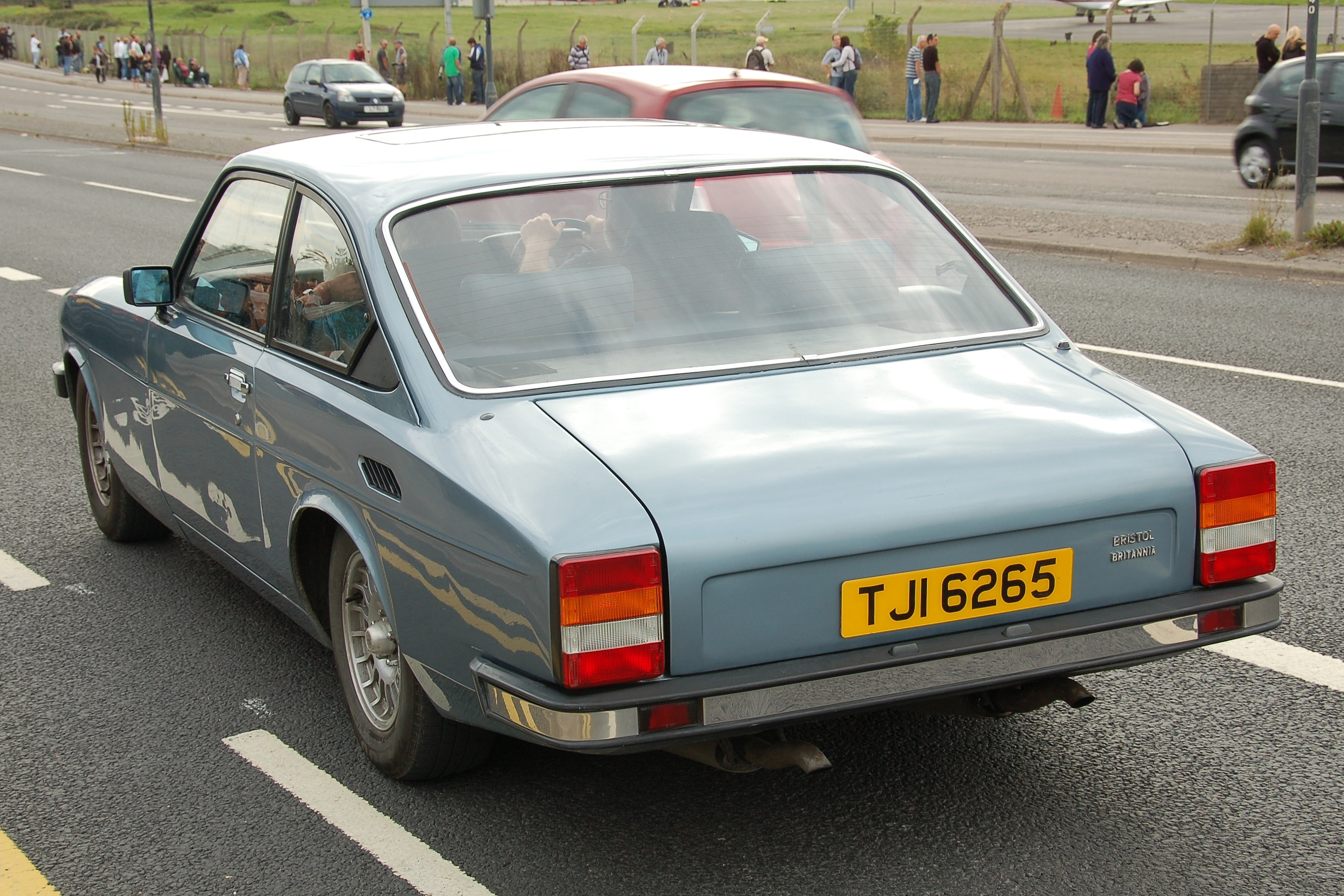 Bristol Britannia car (reg TJI6265) on the A38 at Filton, Bristol, England. The distant people are watching an air display at the (then) Filton Airfield. I don’t know the year of this car. The Britannia car was produced from 1982 to 1994 and was replaced by the Bristol Blenheim.